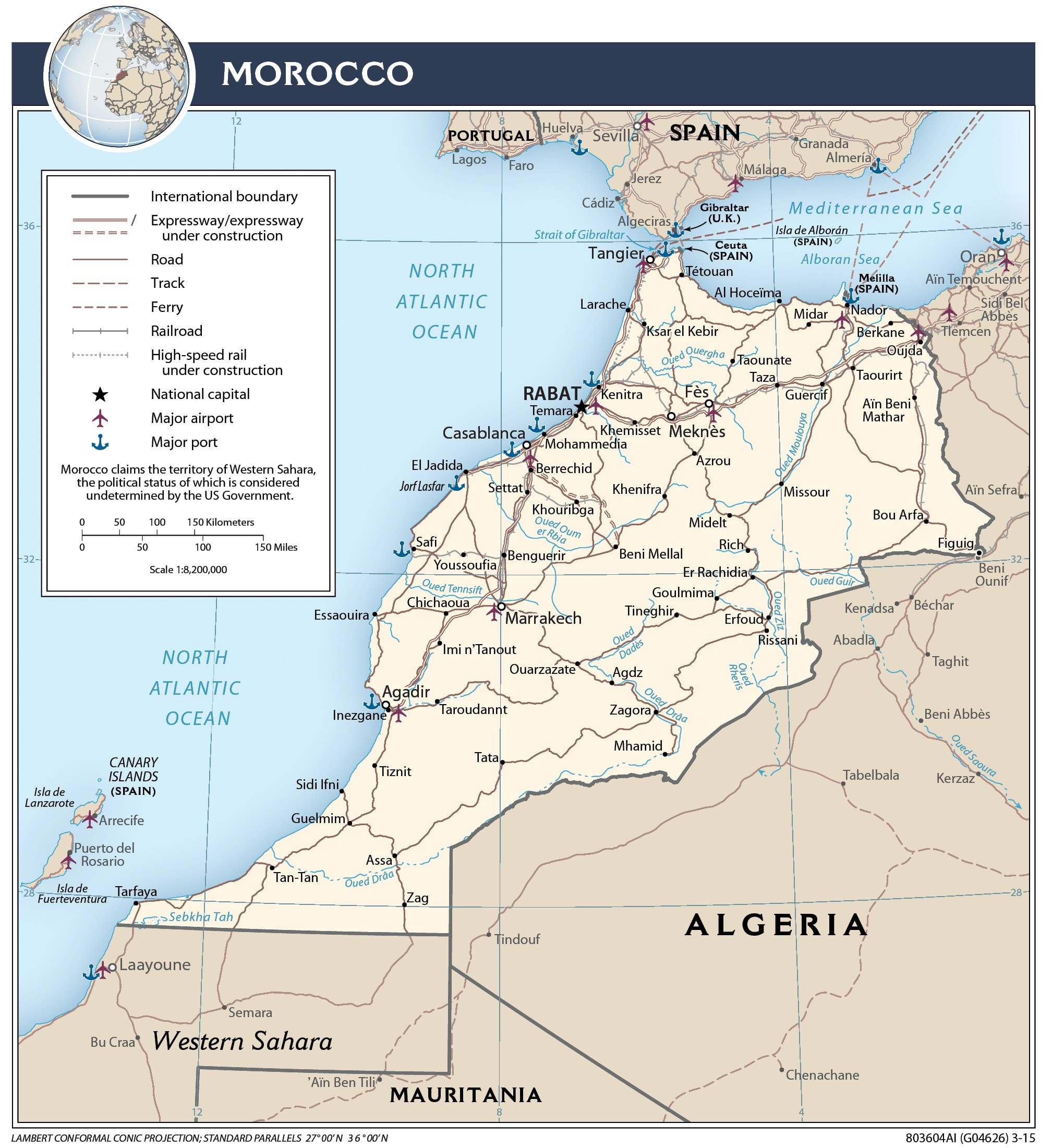 Transport system in Morocco, 2015.